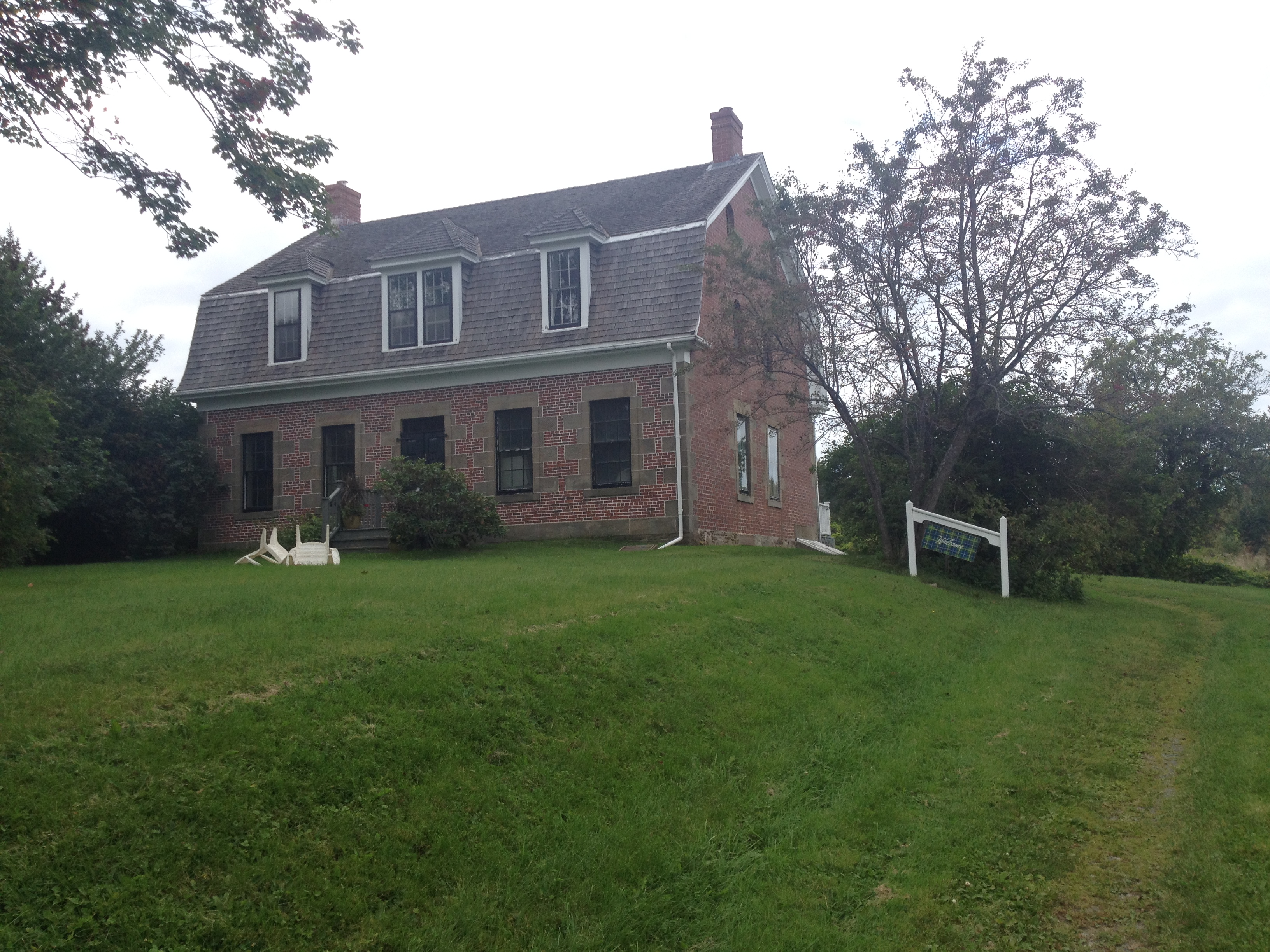 Stone and brick building, built by Thomas McCulloch c1806.